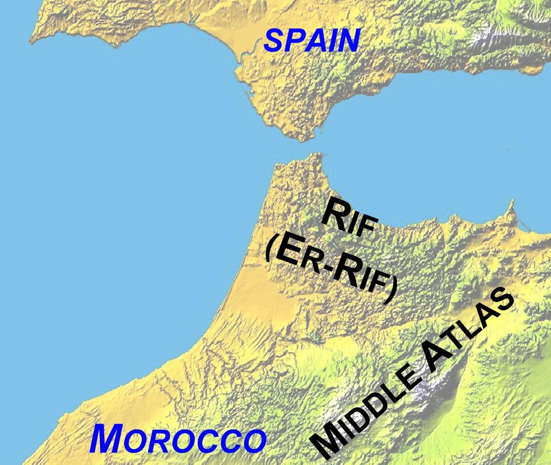 Map of Northwest Africa showing mountain ranges and political boundaries. Made by author. Cropped from NASA source and labelled using Debenham, Frank (1977) Reader's Digest Great World Atlas 3rd edition London: Reader's Digest Association (Great Britain) ISBN:0340016361 p.43 for location of named features 05:07, 27 June 2006 (UTC)